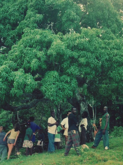 Kindah Tree of Accompong, St Elizabeth Parish, Jamaica